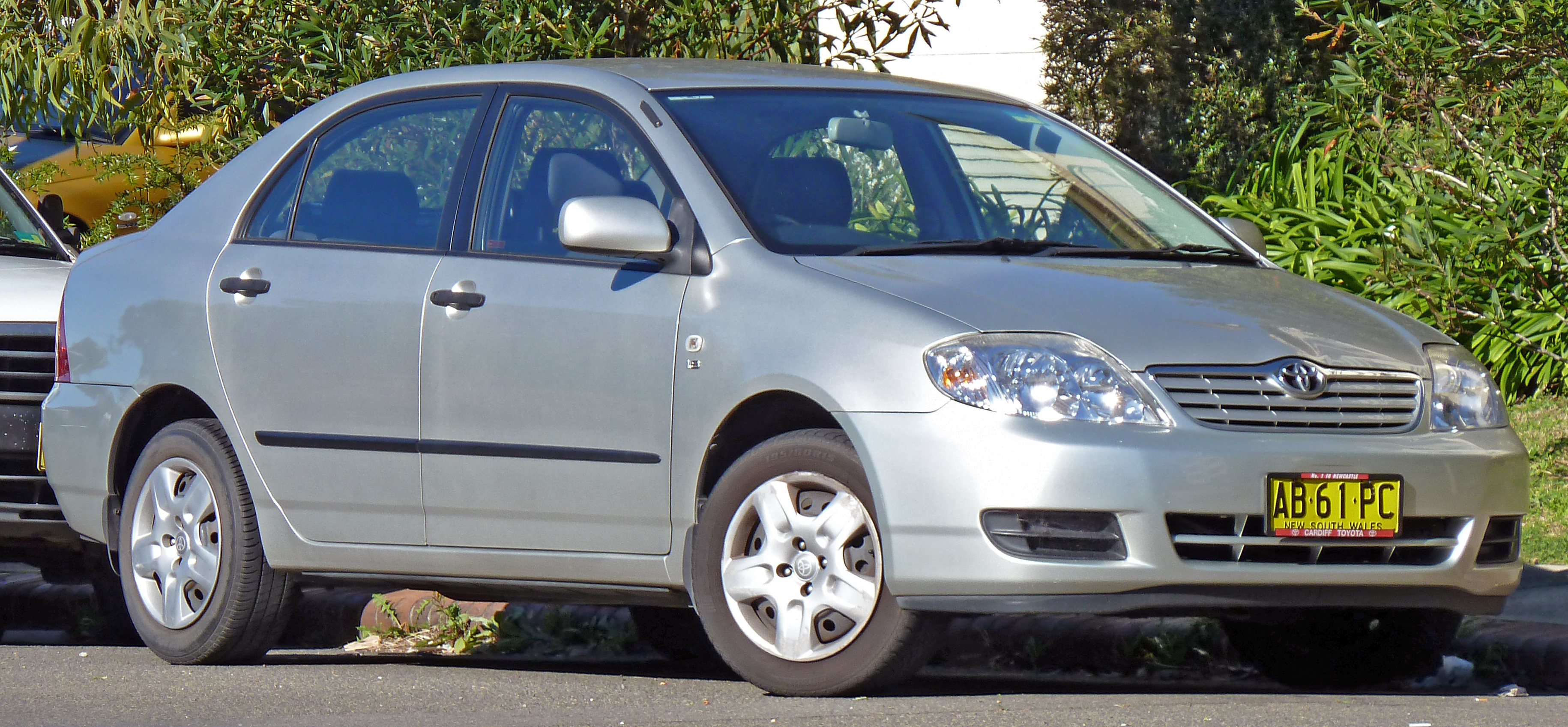 2004–2007 Toyota Corolla (ZZE122R 5Y) Ascent sedan. Photographed in Cronulla, New South Wales, Australia.